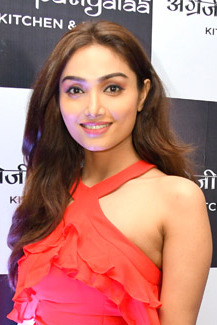 Aishwarya Devan graces the launch of the new resto-bar Angrezi Patiyaala